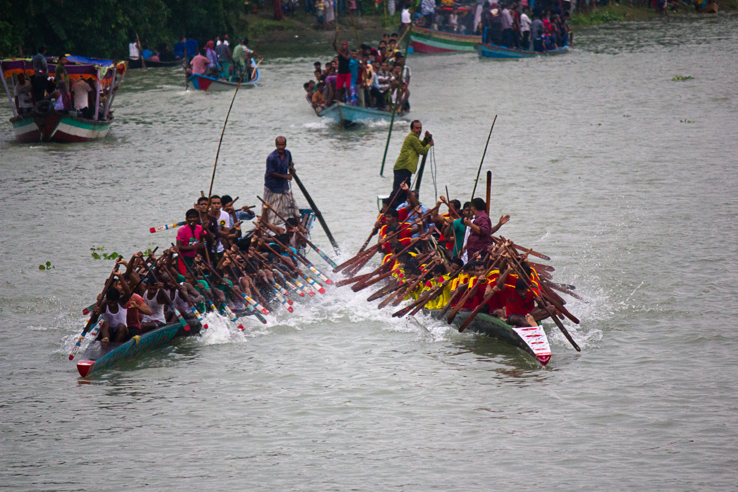 Rowing or Boat race is popular festival at Bangladesh.The festival organized many of district in rainy monsoon